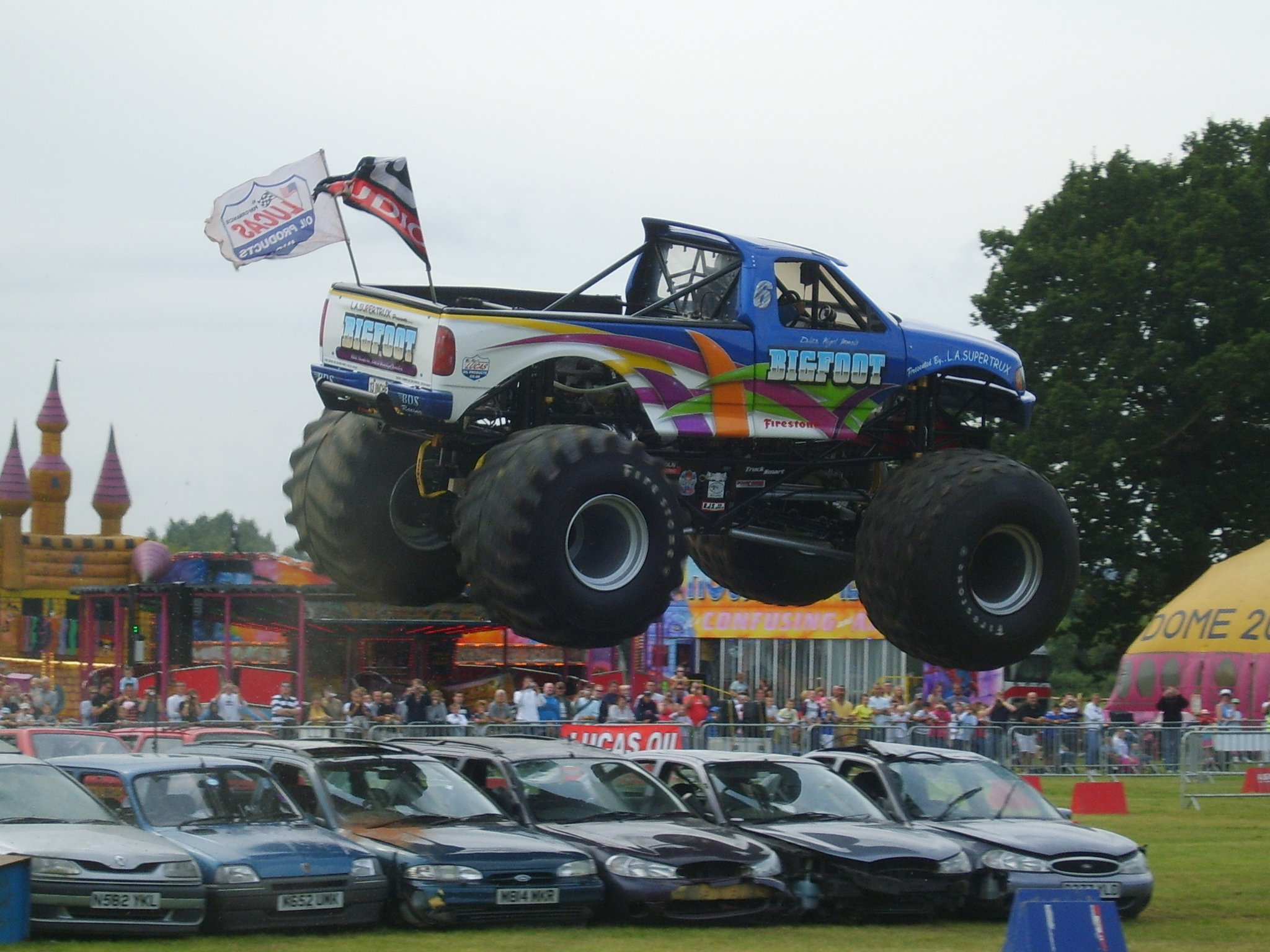 Monster truck Bigfoot 17 competing at the Monster Mania event at The Hop Farm Country Park on 2008-08-16.